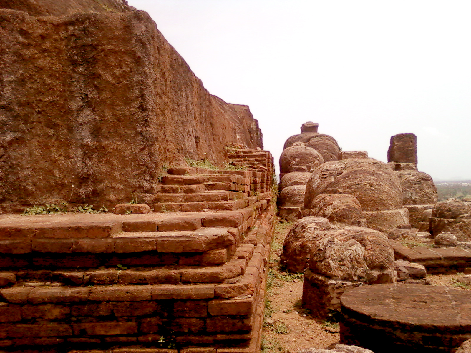 Rock cut Buddhist stupas at Bojjannakonda Monastic ruins site near Anakapalle in Visakhapatnam district, Andhra Pradesh, India